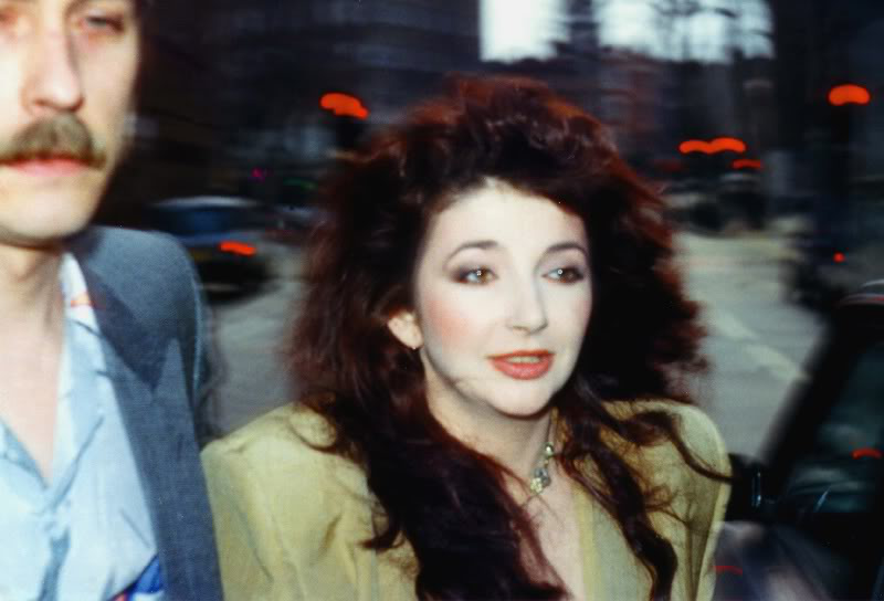 Kate Bush about to perform at Comic Relief 1986